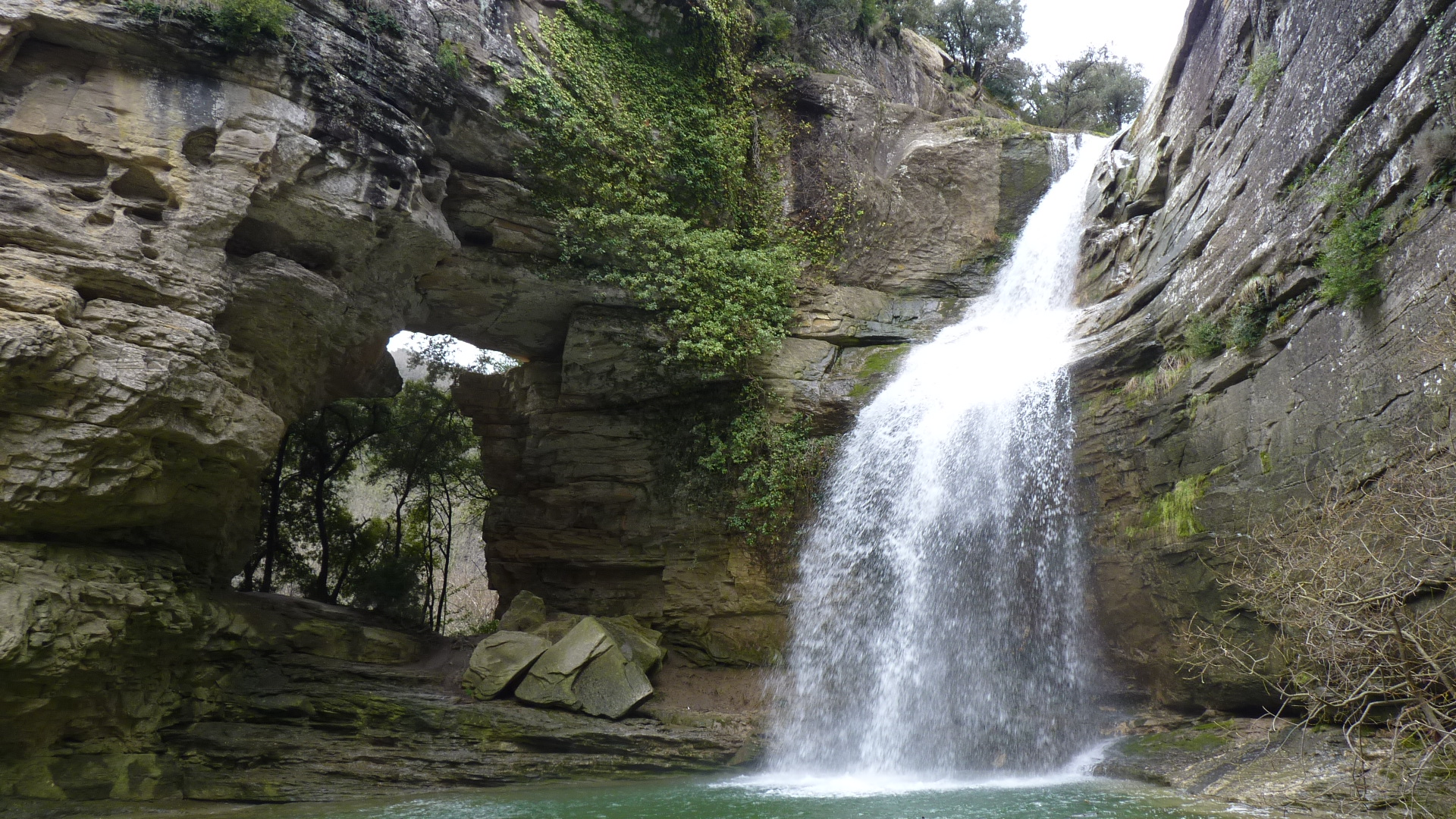 La Foradada, falls near Cantonigrós, Osona, catalonia